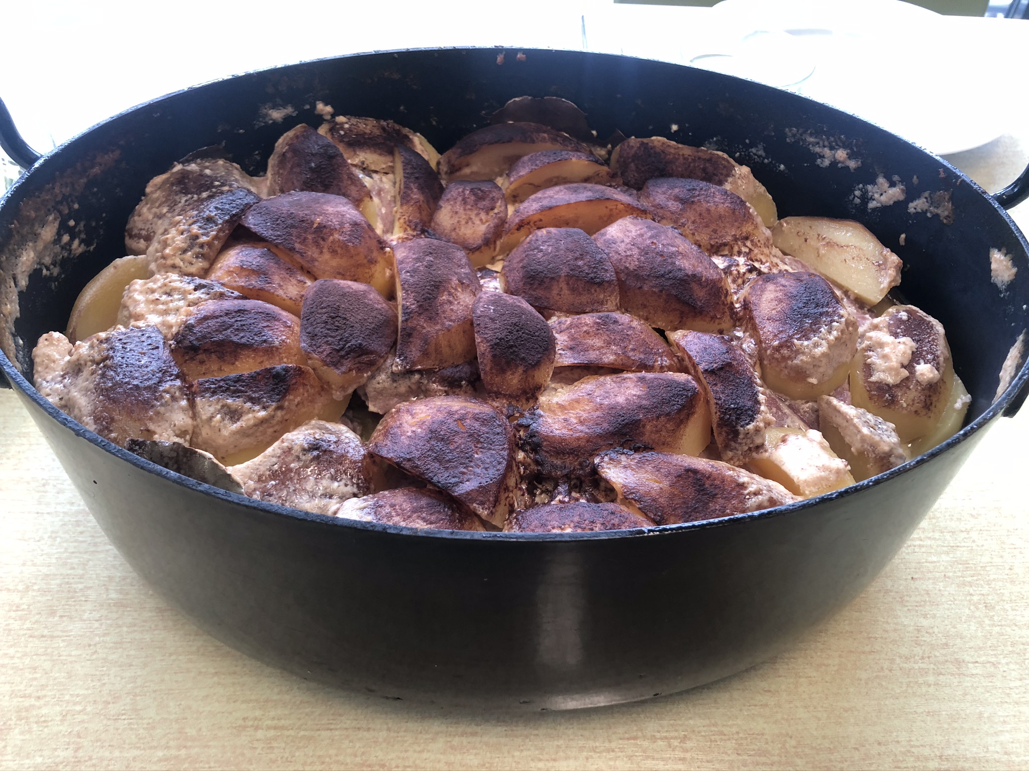 Backesgrumbeere fresh out of the oven